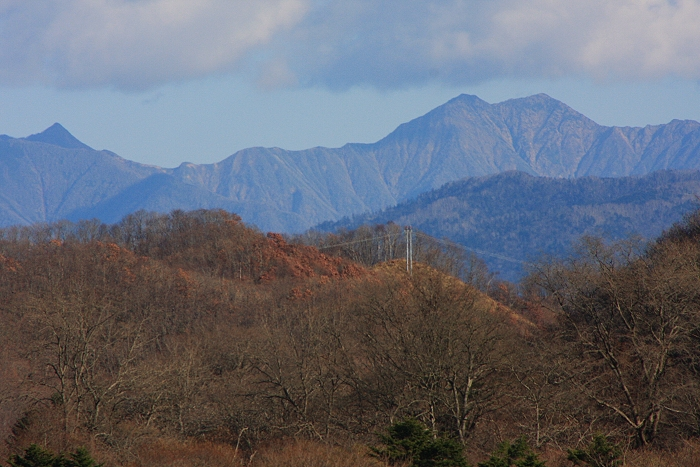 Mount Soematsu (Soematsu-dake) as seen from Mitsuishikerimai, Shinhidaka Town